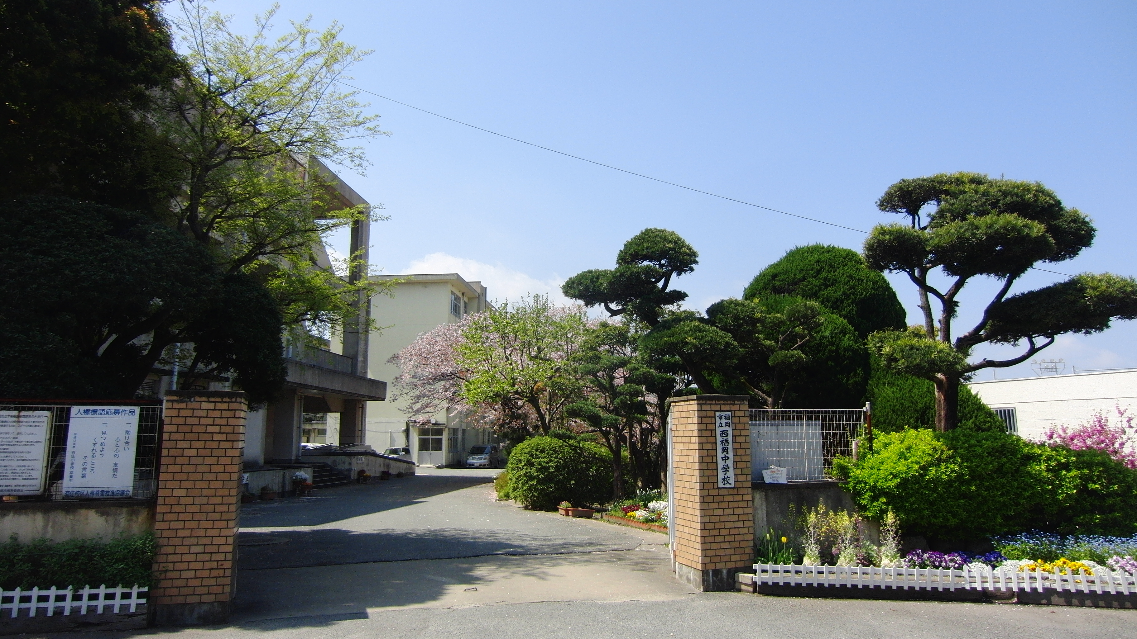 Nishi Fukuoka Junior High School, Fukuoka, Japan.